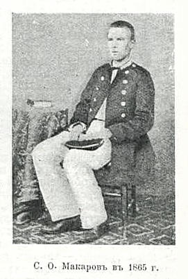 Stepan Osipovich Makarov (Russian: Степа́н О́сипович Мака́ров; 8 January 1849 [O.S. 27 December] – 13 April [O.S. 31 March] 1904) was a Russian vice-admiral, a highly accomplished and decorated commander of the Imperial Russian Navy, an oceanographer, awarded by the Russian Academy of Sciences, and author of several books.